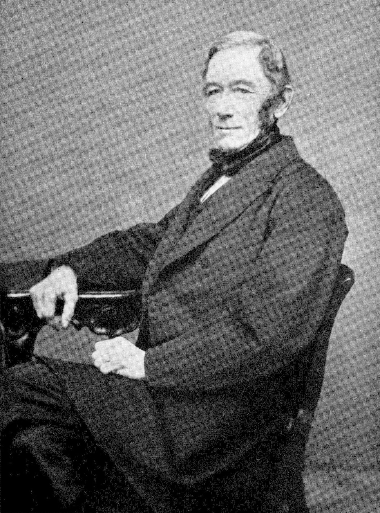 Swedish metallurgist and industrialist Gustaf Ekman (1804-1876)